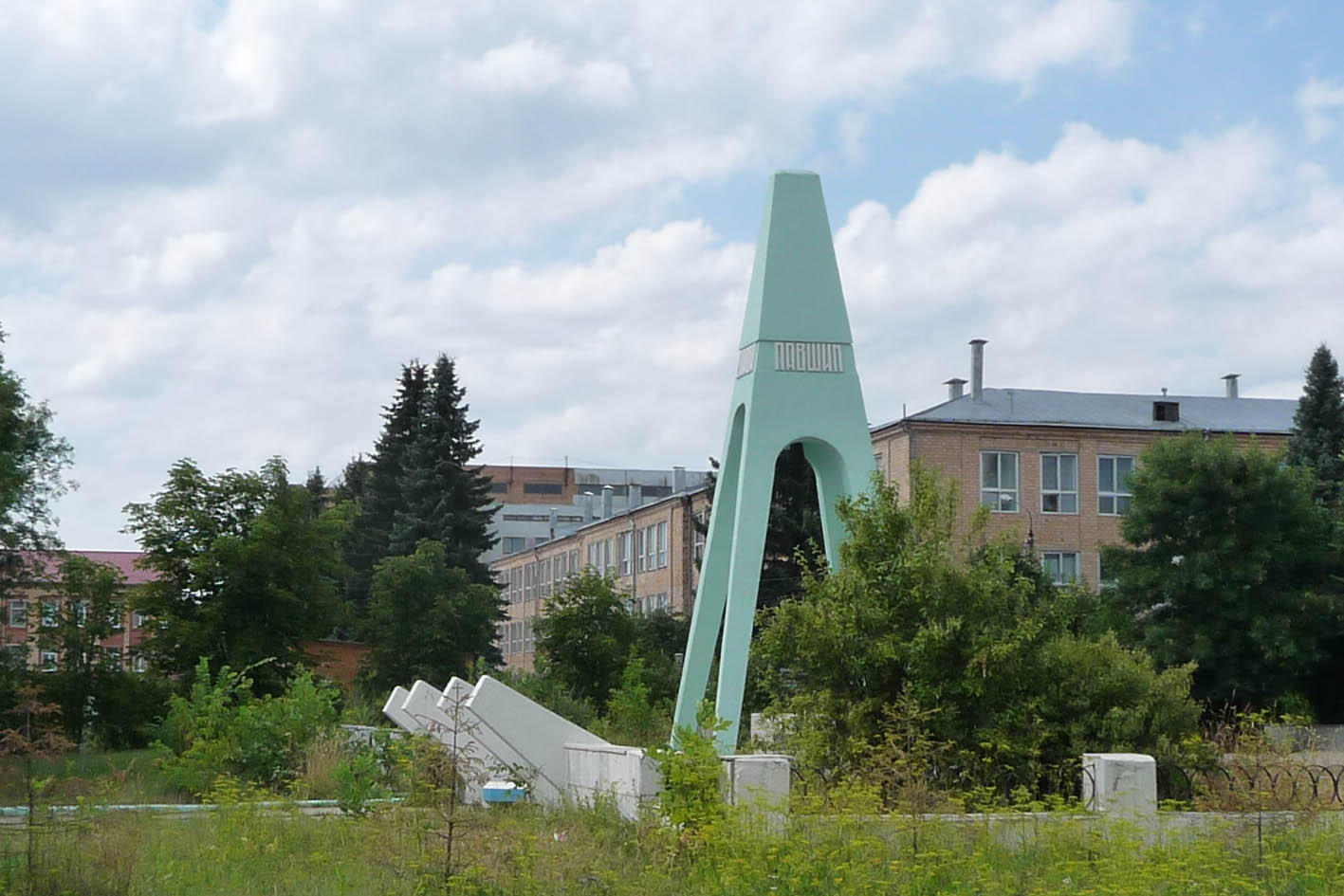 The Great Patriotic War Memorial in the Township of Biokombinat. Shchyolkovsky District, Moscow oblast, Russia.